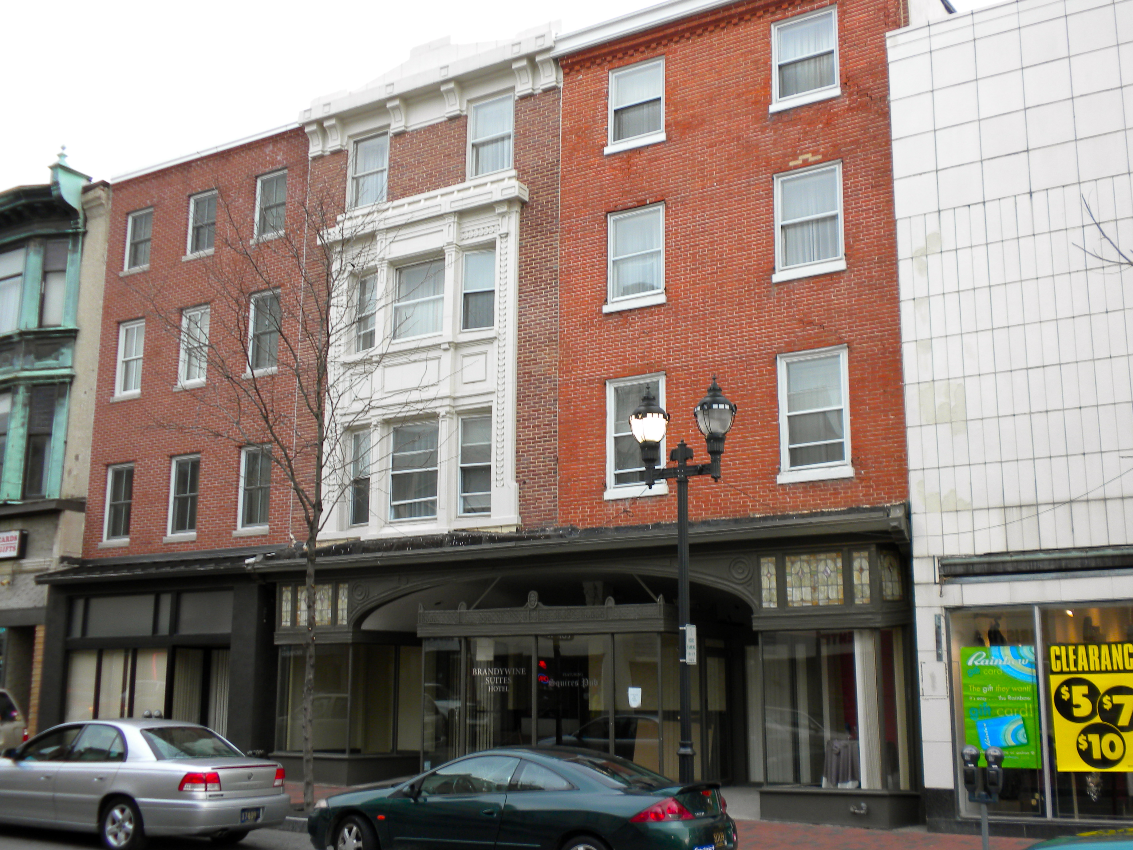 Braunstein Building at 704-706 North Market Street in Wilmington, Delaware. On the NRHP since December 19, 1985 Two doors north is the Max Keil Building, on NRHP since January 30, 1985, at 712 N. Market St., Wilmington, Delaware. Note building also named Max Keil Building at 700 N. Market, also on NRHP. Pix at "Max_Keil_Building 700.JPG" Earlier this pix was misidentified. But this is now the correct name.